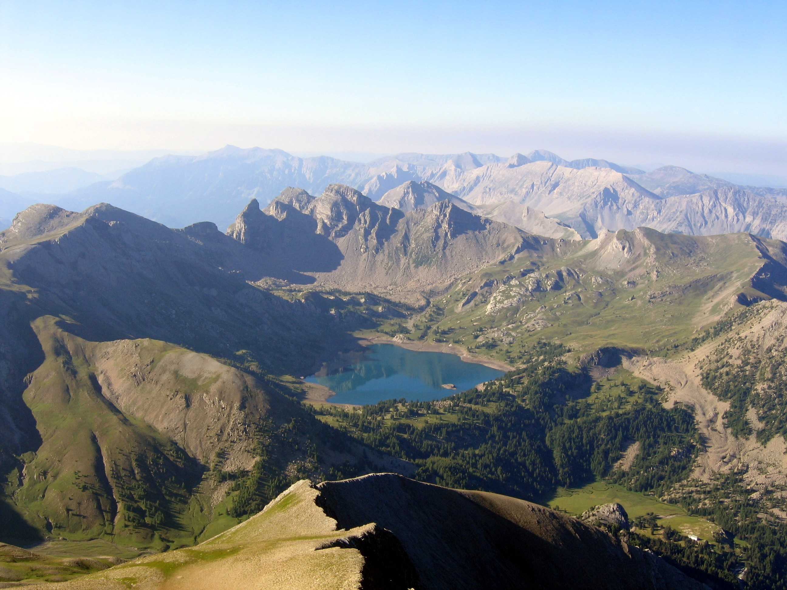 Lac d'Allos as seen from Mont Pelat